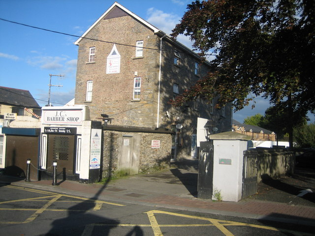 Business Premises, originally Carmelite Convent, Blanchardstown. Built in 1828 as a Carmelite Convent and closed in 1832. In 1859 established as a Holy Ghost seminary. Within a year because if its success they moved to Blackrock which led to the establishment of the still very successful 'Blackrock College'. In 1860 the sisters of St Joseph of Cluny set up a convent in the building. This order subsequently set up Mount Sackville Convent, Chapelizod 538551. The building was recently restored and now house business premises including a restaurant.